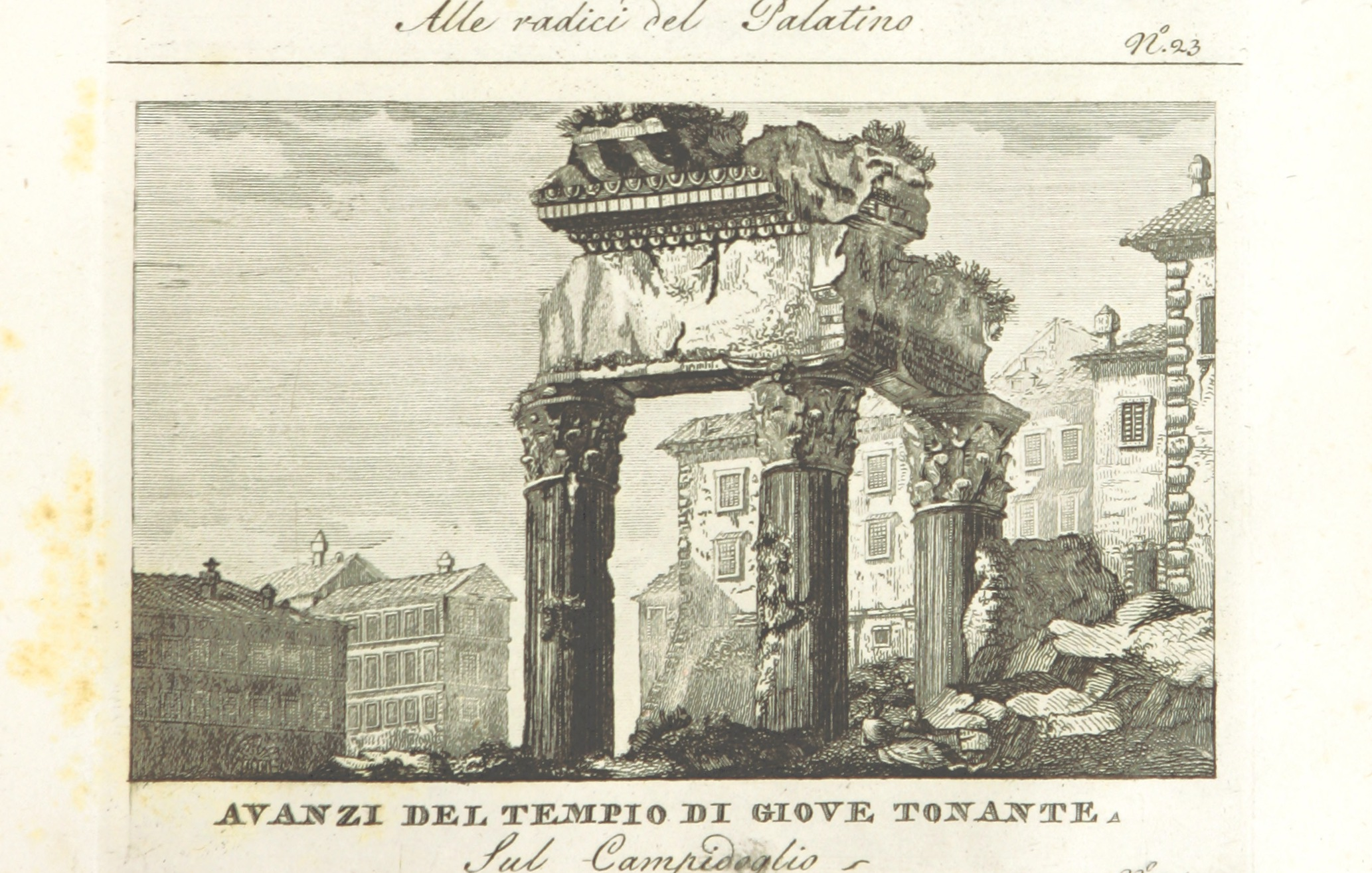 Title: "Vedute antiche e moderne le più interessanti della città di Roma, incise da vari autori, in numero 100. (Explication ... rédigée ... par E. Piale.)", "Appendix. Topography" Contributor: PIALE, Stefano. Author: Rome (Italy) Shelfmark: "British Library HMNTS 10131.h.1." Page: 45 Place of Publishing: Rome Date of Publishing: 1820 Publisher: V. Monaldini Issuance: monographic Identifier: 003147404